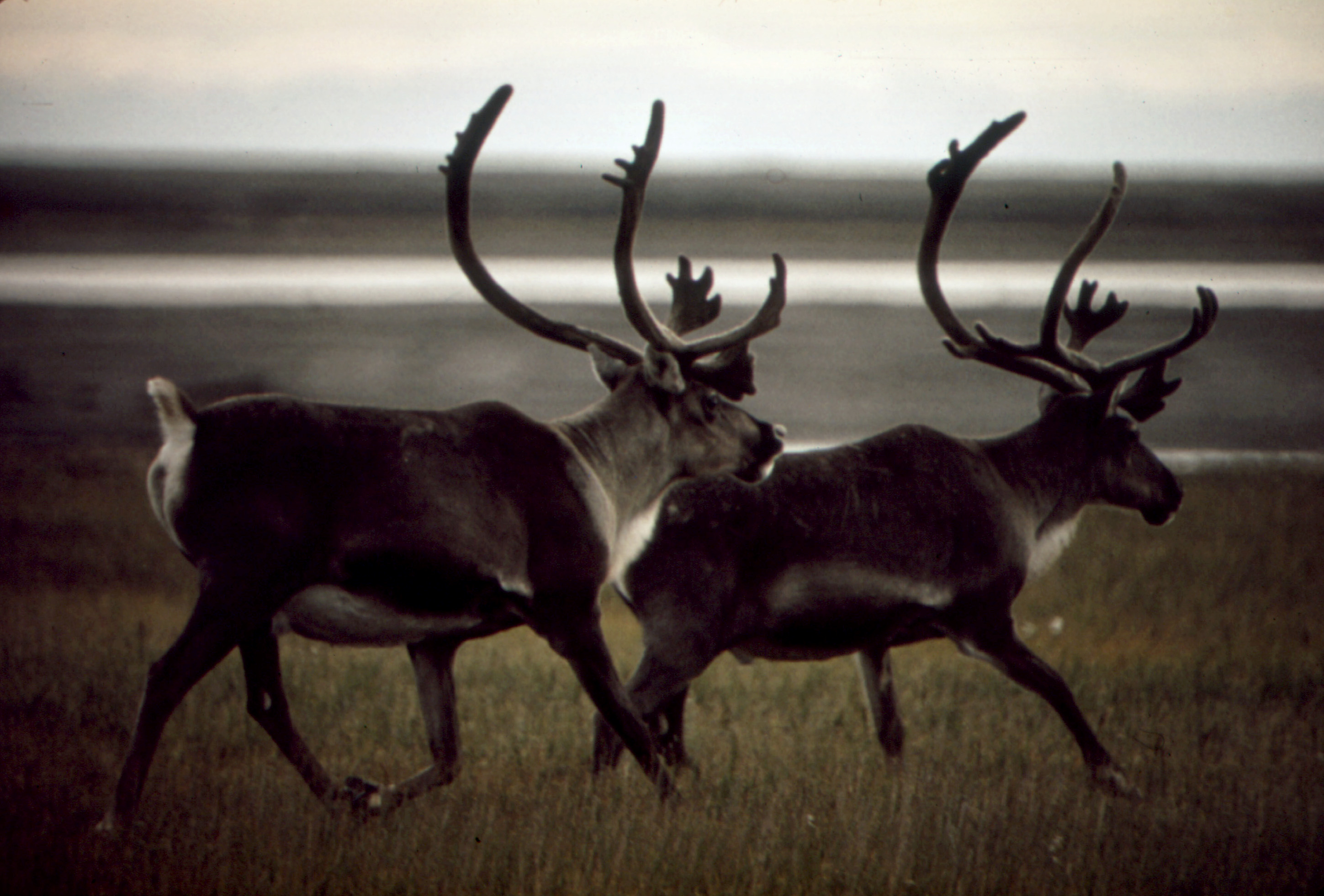 Original Caption: Caribou Trot Across the Tundra, near Prudhoe Bay Where the Pipeline Will Start 08/1973 U.S. National Archives’ Local Identifier: 412-DA-7892 Photographer: Cowals, Dennis, 1945- Subjects: Alaska (United States) state Environmental Protection Agency Project DOCUMERICA Persistent URL: Repository: Still Picture Records Section, Special Media Archives Services Division (NWCS-S), National Archives at College Park, 8601 Adelphi Road, College Park, MD, 20740-6001. For information about ordering reproductions of photographs held by the Still Picture Unit, visit: Reproductions may be ordered via an independent vendor. NARA maintains a list of vendors at Buy copies of selected National Archives photographs and documents at the National Archives Print Shop online: Access Restrictions: Unrestricted Use Restrictions: Unrestricted